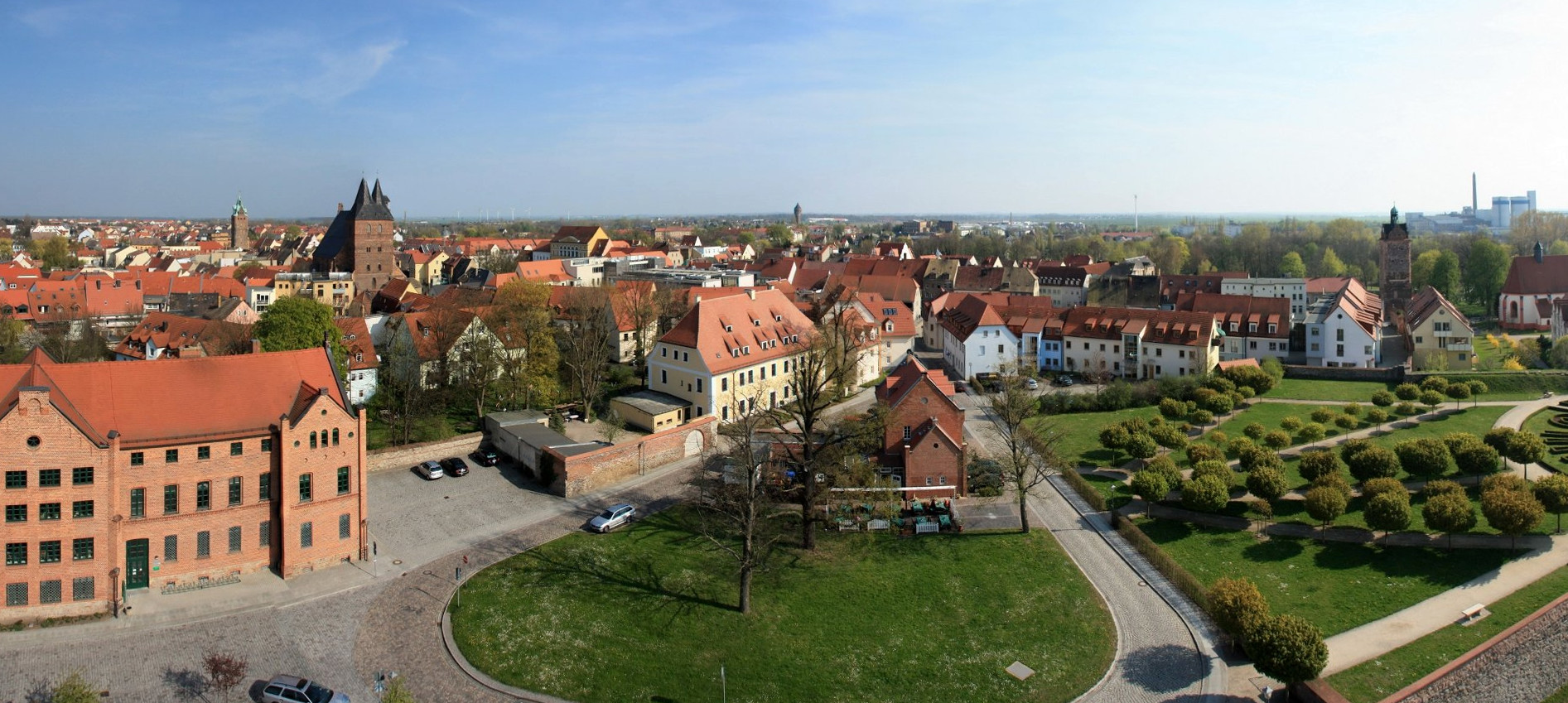 Panorama of Delitzsch (seen from the baroque palace tower)